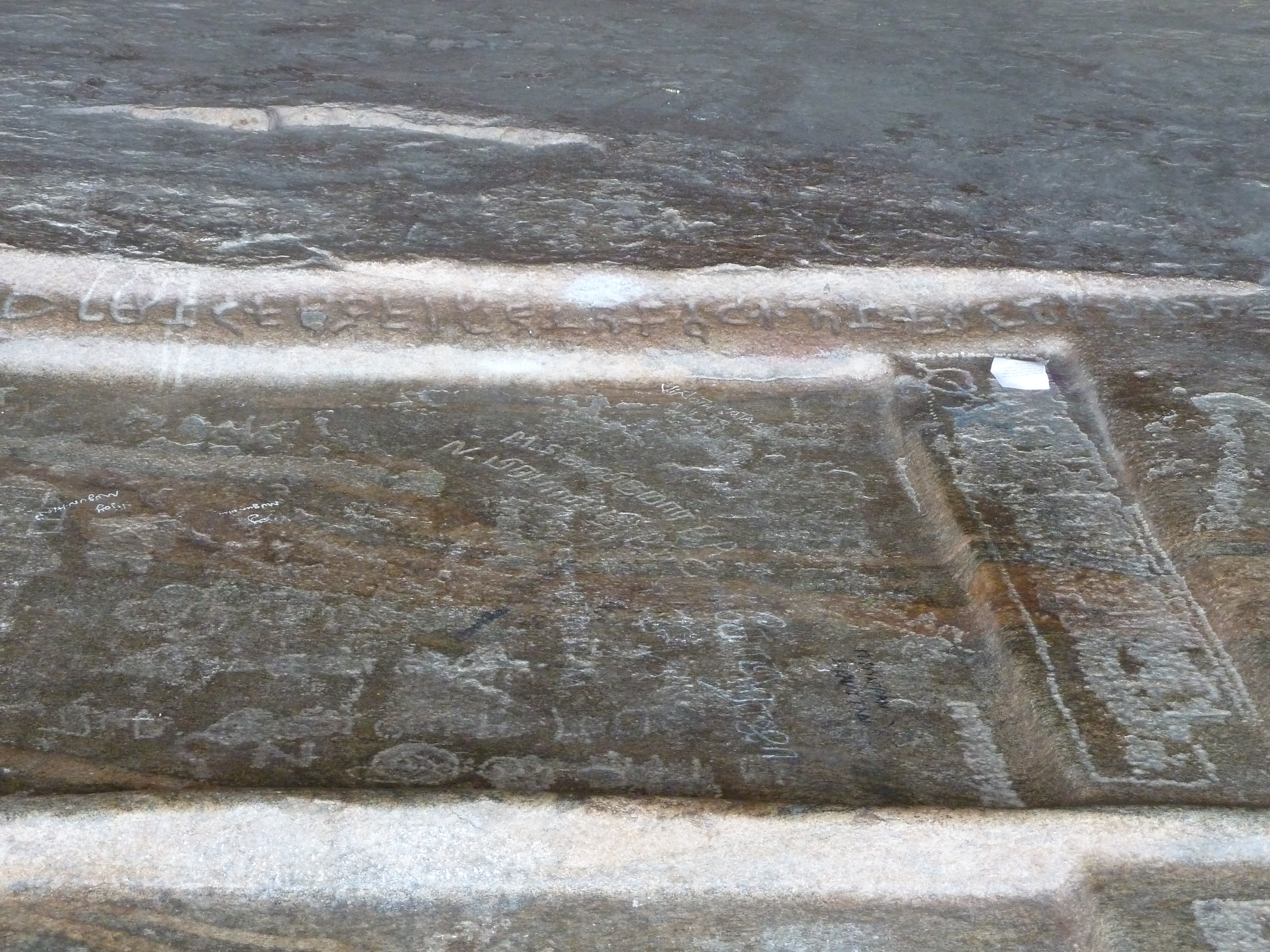 Natural Cavern With Stone Beds And Brahmi And Old Tamil Inscriptions Called Eladipattam